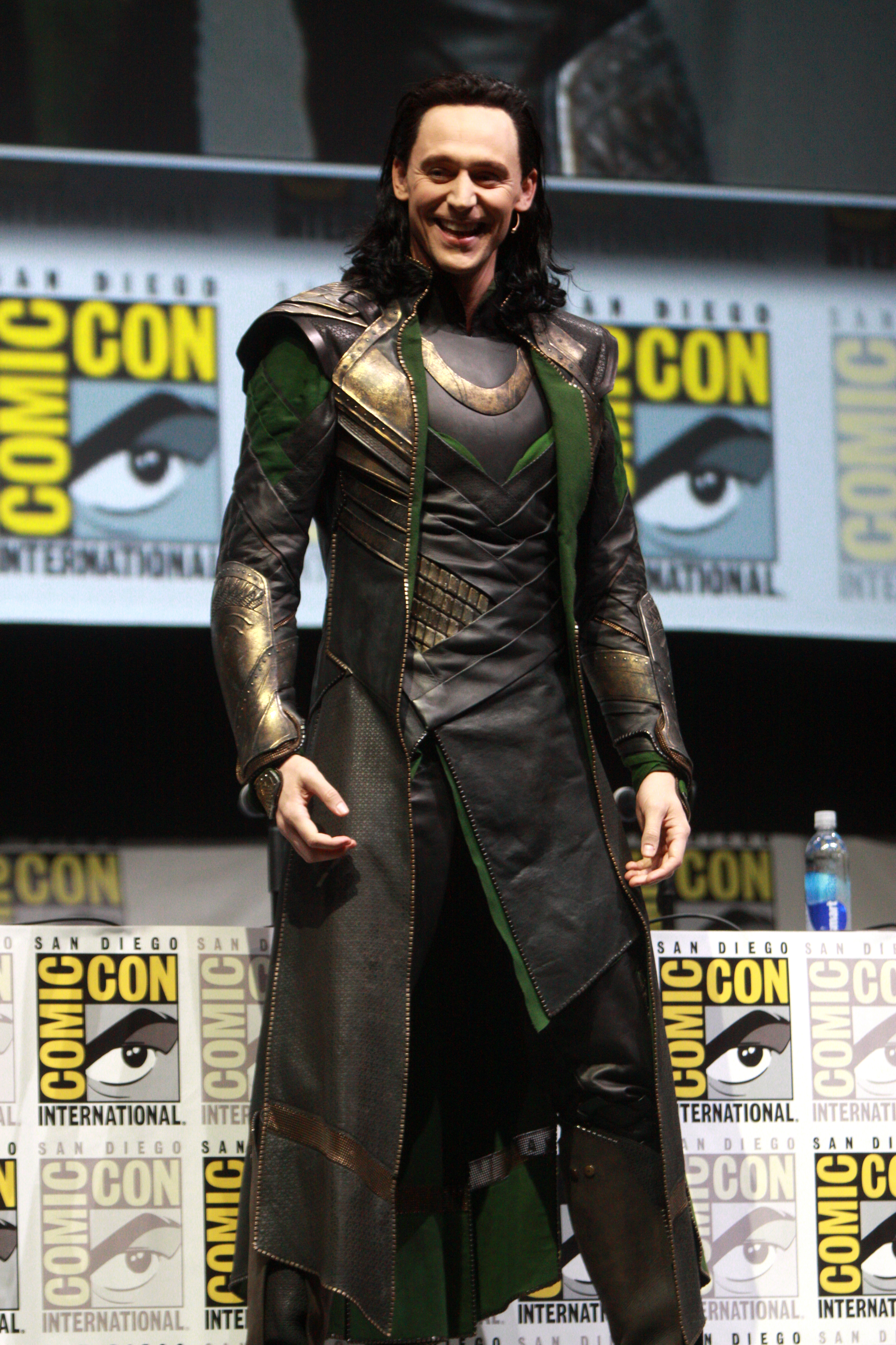 Tom Hiddleston at the 2013 San Diego Comic Con International in San Diego, California.